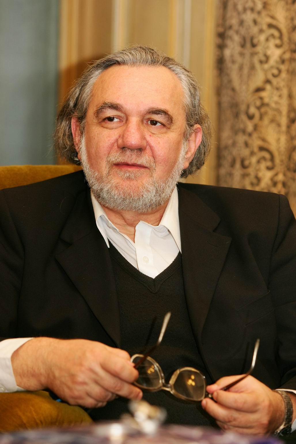 Andrei Oişteanu is a Romanian historian of religions and mentalities, ethnologist, cultural anthropologist, literary critic and novelist.